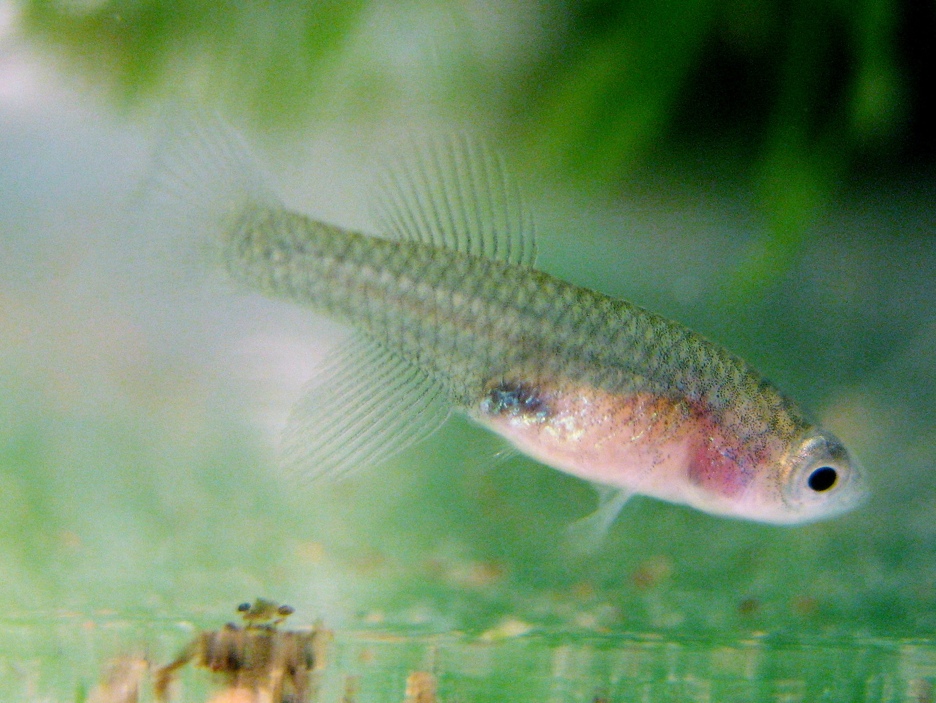 Nothobranchius eggersi fry. had to break out the old Canon to get good macros - much as I like the 10x zoom of my Lumix, it can't do THIS! :D at 3.5 weeks they are still quite transparent. they are now around 1 - 1.5cm long.